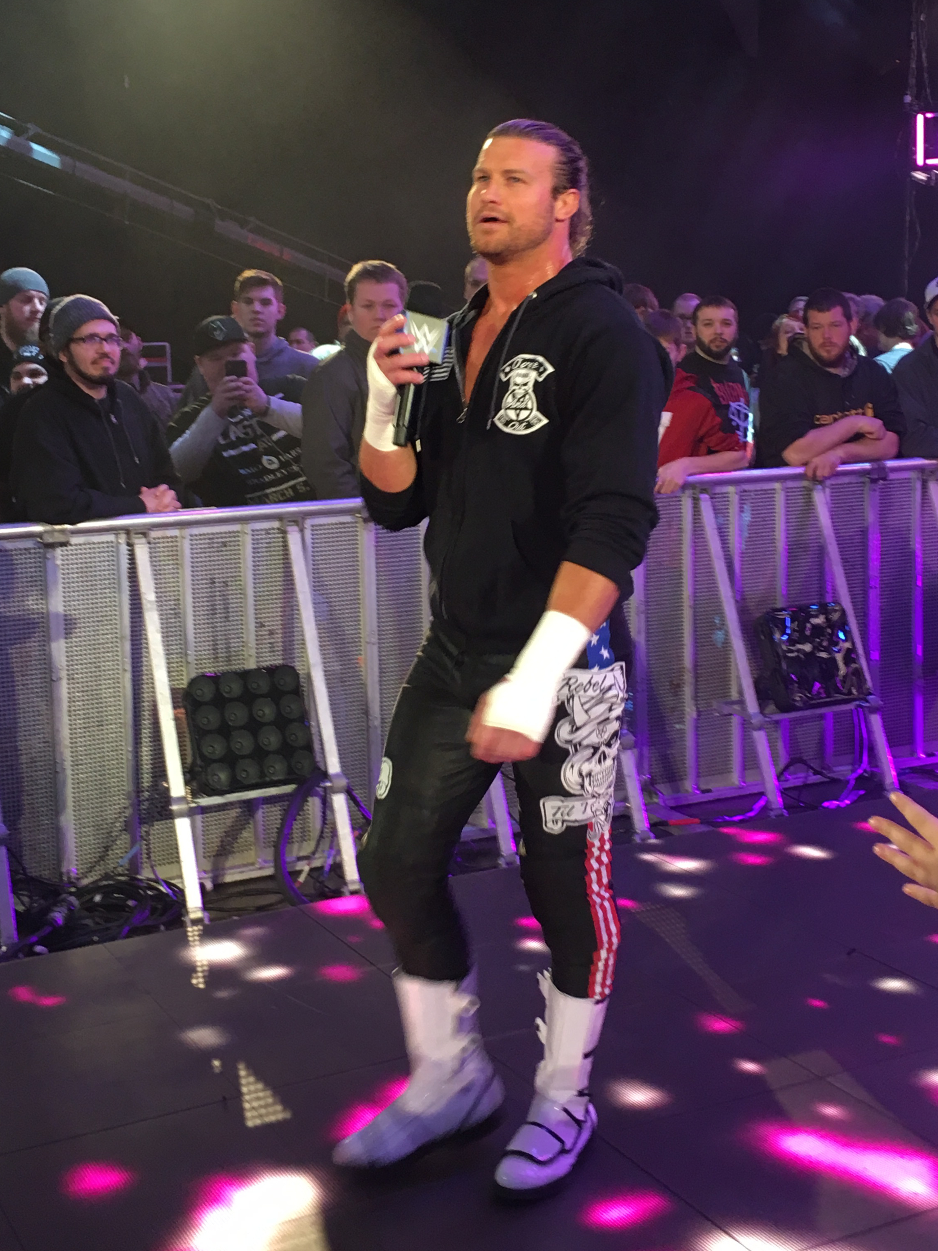 Professional wrestler Dolph Ziggler at a SmackDown Live event